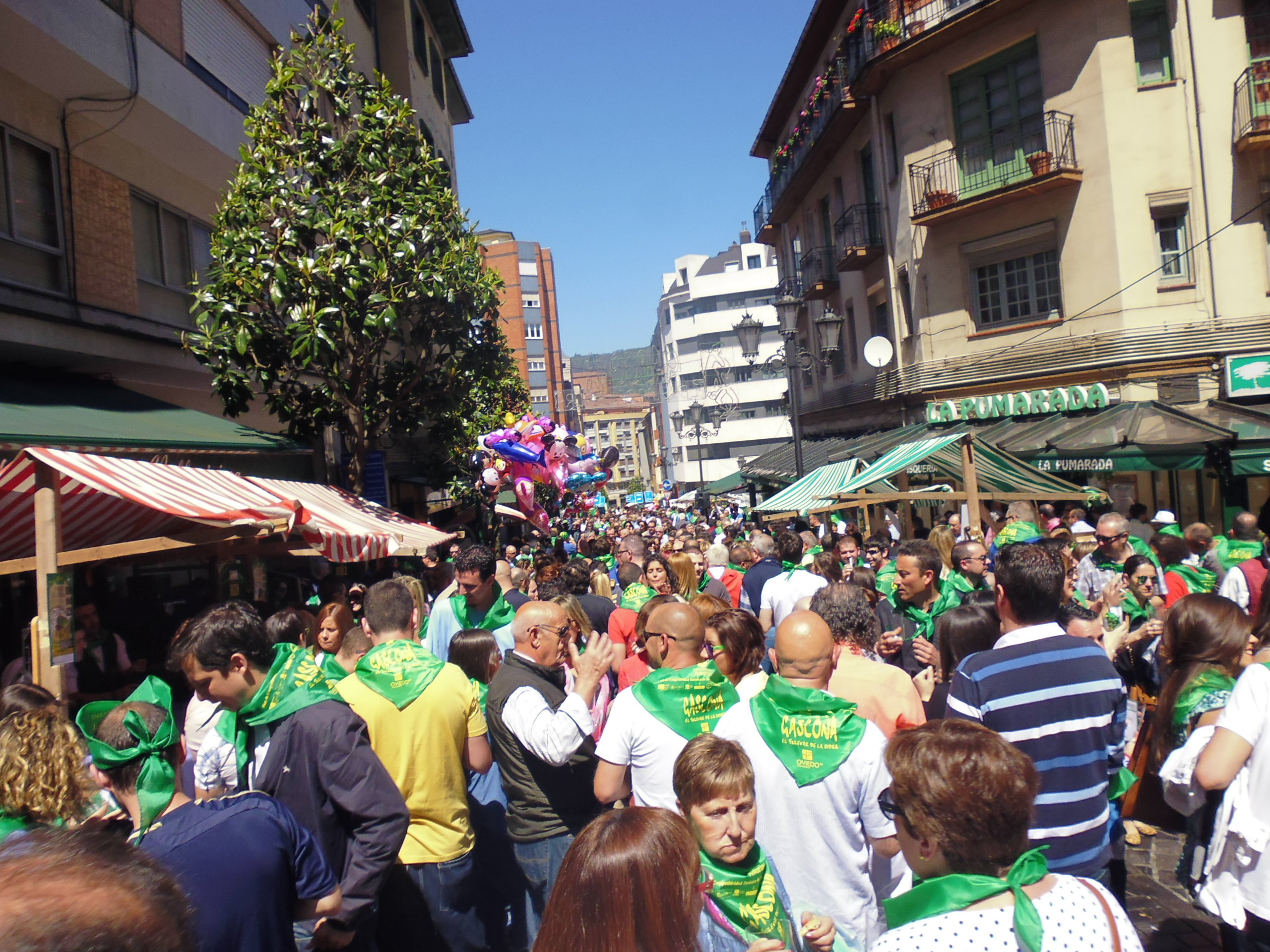 Calle Gascona in Oviedo, during the Prueba de la sidra May 2014